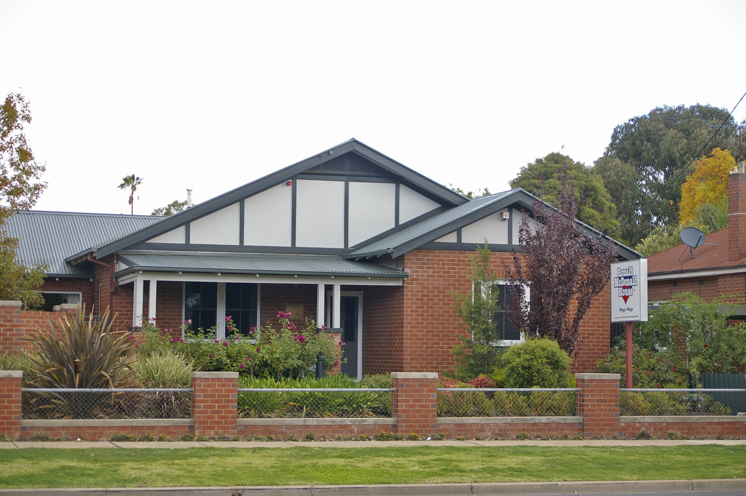 Ronald McDonald House Wagga Wagga incorporating 93.1 StarFM Kids Kottage.